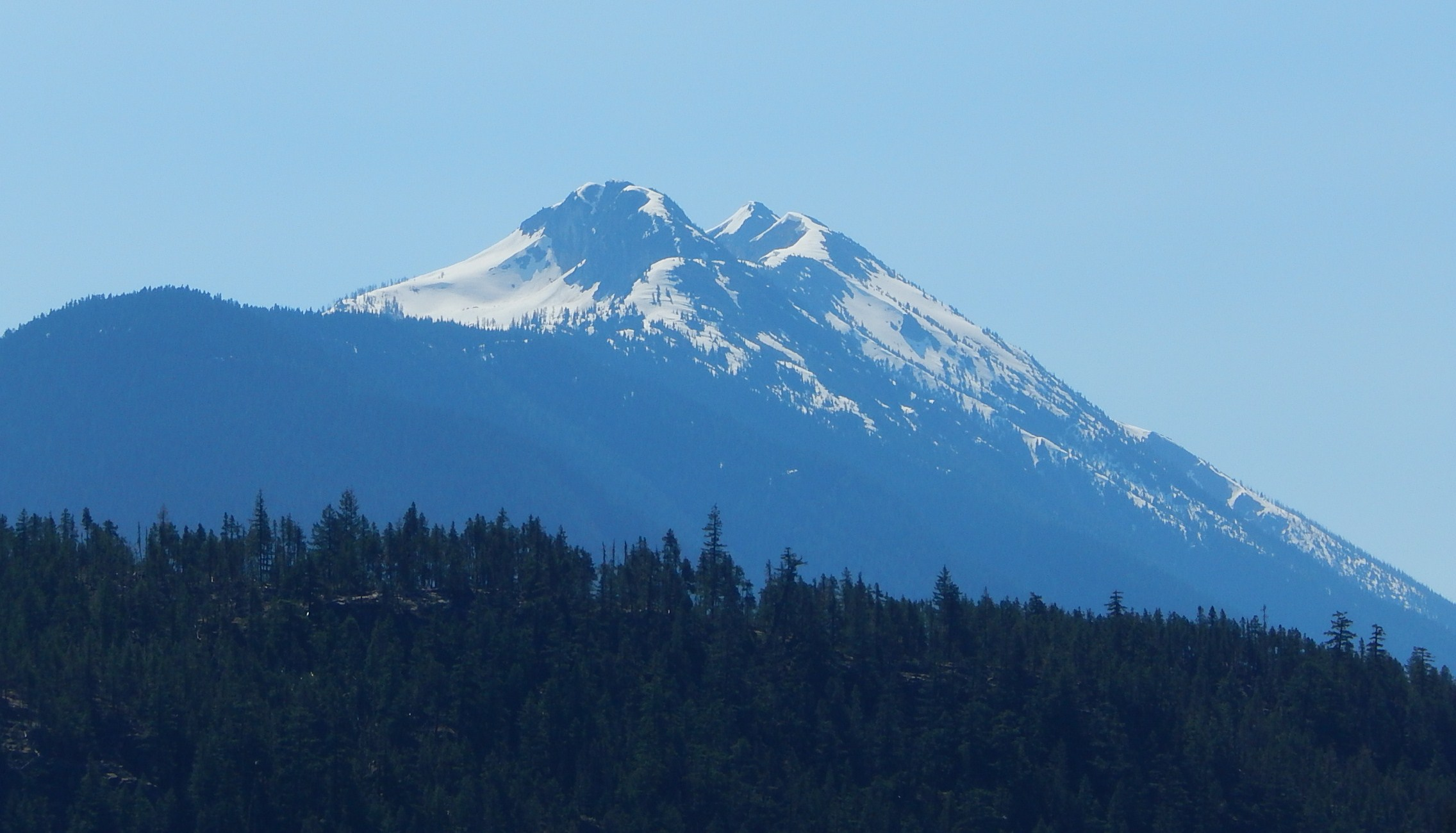 Red Mountain 7658' in the North Cascades National Park as seen from Diablo Lake